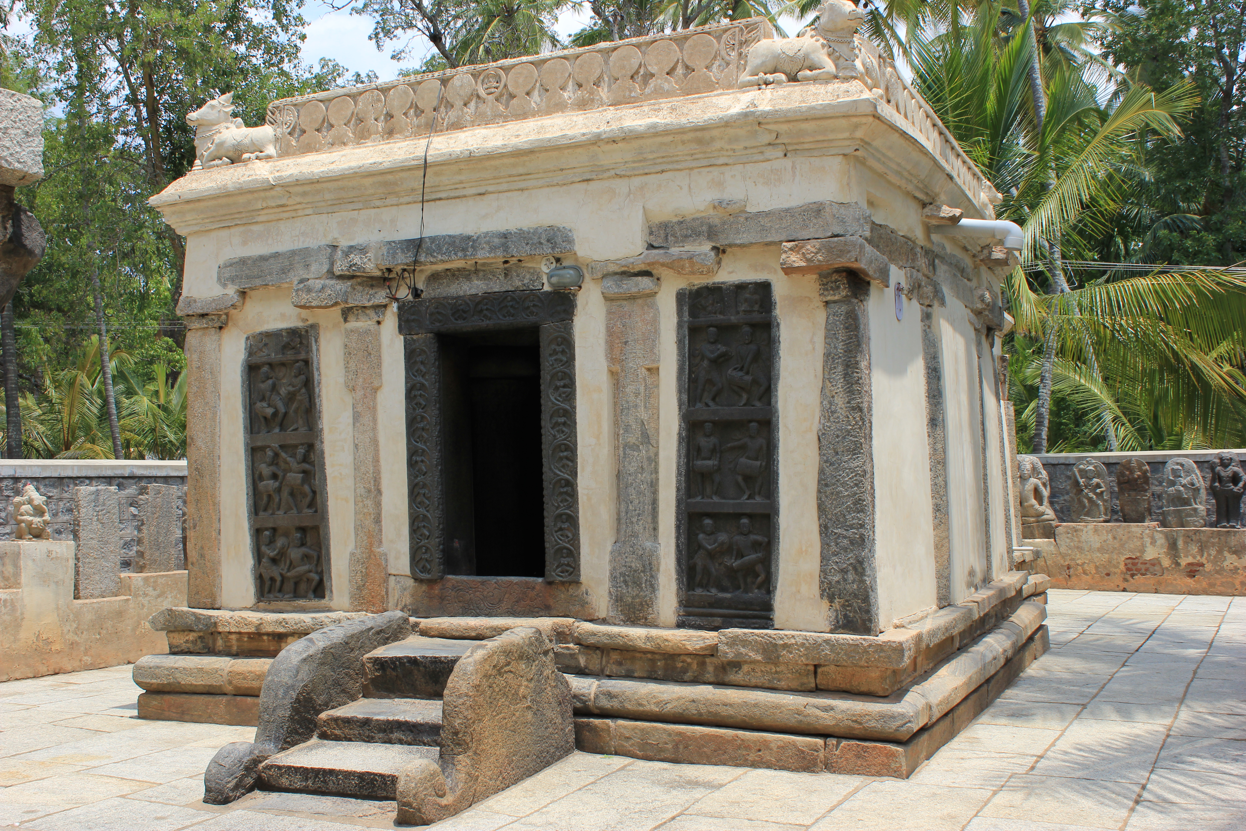 This image was taken by self (Dinesh Kannambadi) at the Arakeshwara temple (also spelt Arakeshvara or Arakesvara) in Hole Alur, Chamarajanagar district, Karnataka state, India. The temple was built by Butuga II (A.D. 939-960) of the Western Ganga dynasty (a Rashtrakuta empire vassal) as a fitting finale to his victory over the Cholas of Tanjore at the battle of Takkolam